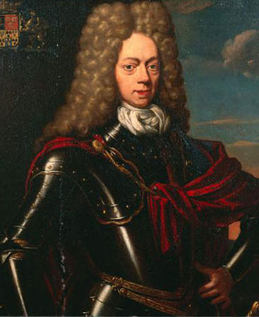 Portrait of John William, Duke and Baron de Ripperda